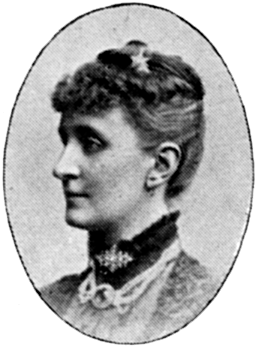 Image scanned from the book "Svenskt Porträttgalleri II" ("Swedish Portrait Gallery II") published 1899